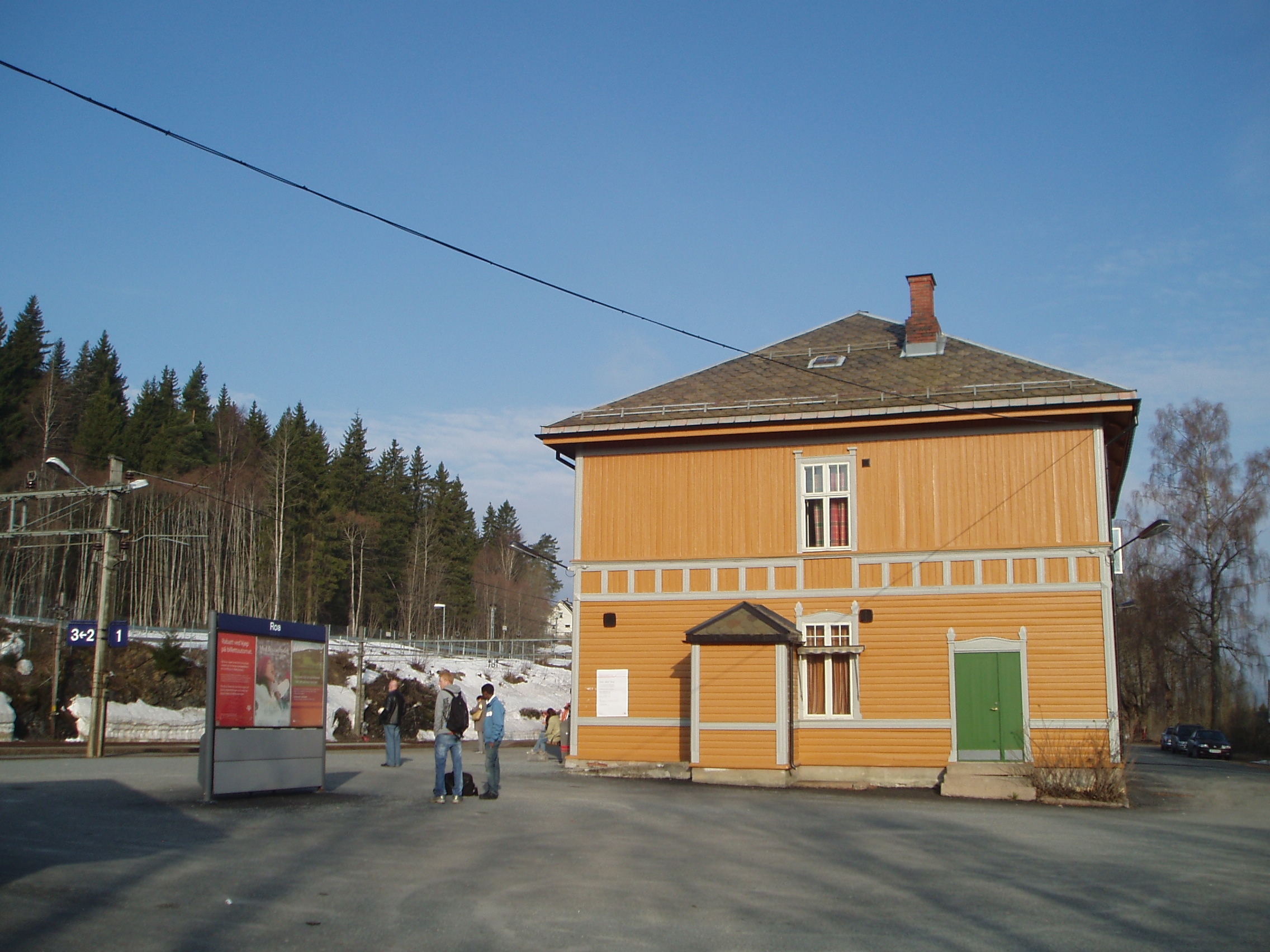 Roa train station.